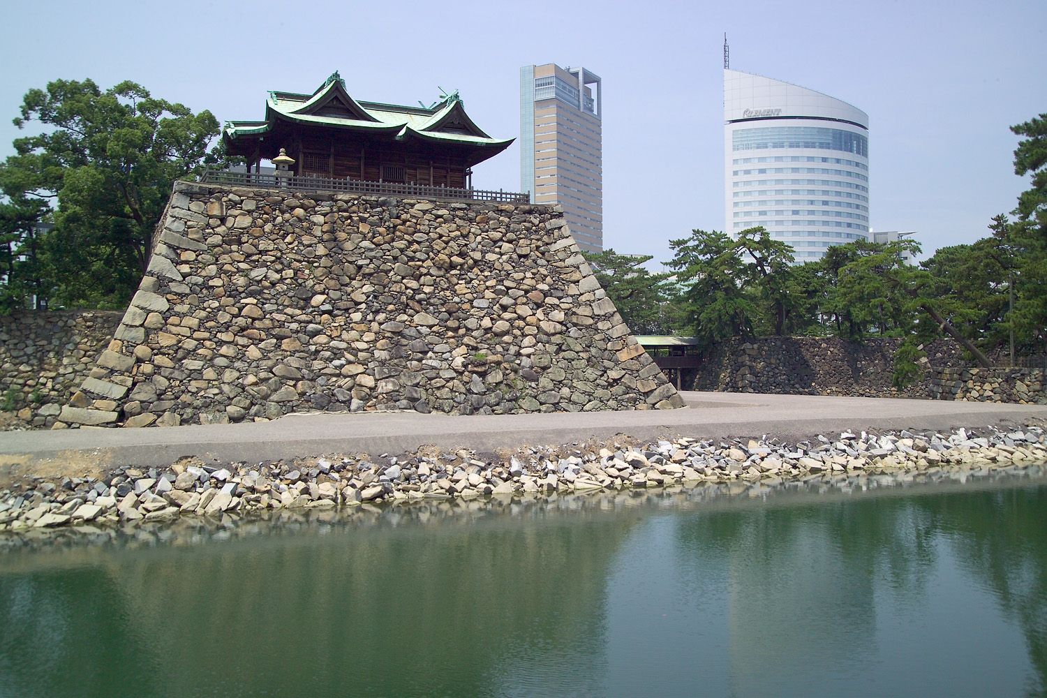 This photograph was taken in the city of Takamatsu, Kagawa prefecture, Japan This building is at Takamatsu Castle. It is a shrine at the site where the castle keep once stood. In the background are buildings near Takamatsu Station.